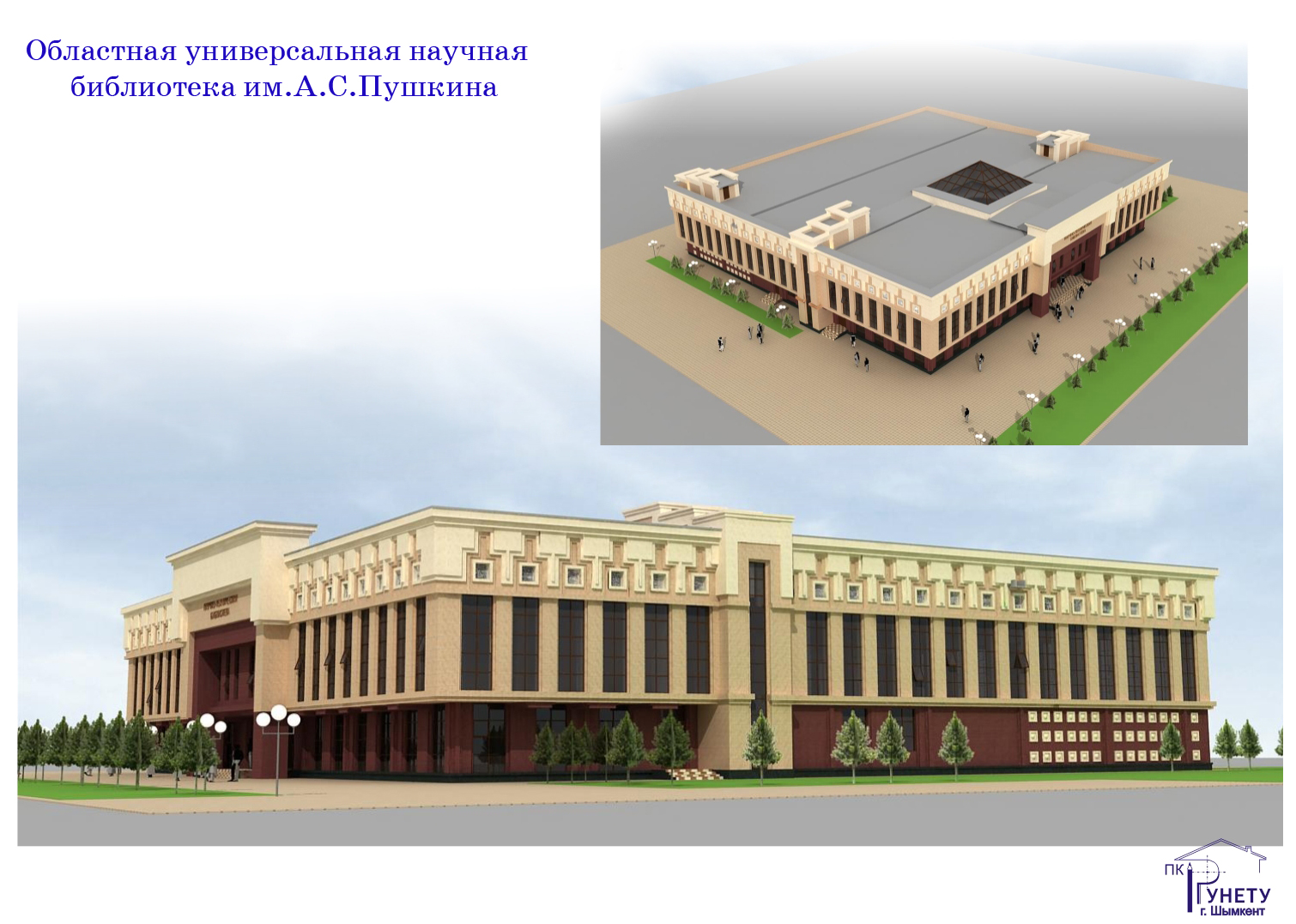 Схема ОУНБ им.А.С.Пушкина